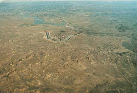 View northeast across the Deckers coal mine and the Tongue River in the Powder River Basin, southeastern Montana. Typical terrain of unglaciated Missouri Plateau. Small mesas with cliffed escarpments on capping layer of resistant sandstone, such as those in the foreground, are common. Coal mine is about 1 mile across.